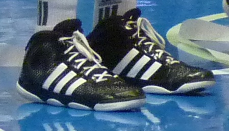 Adidas